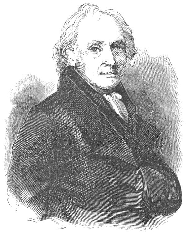 Drawing of Mason Weems